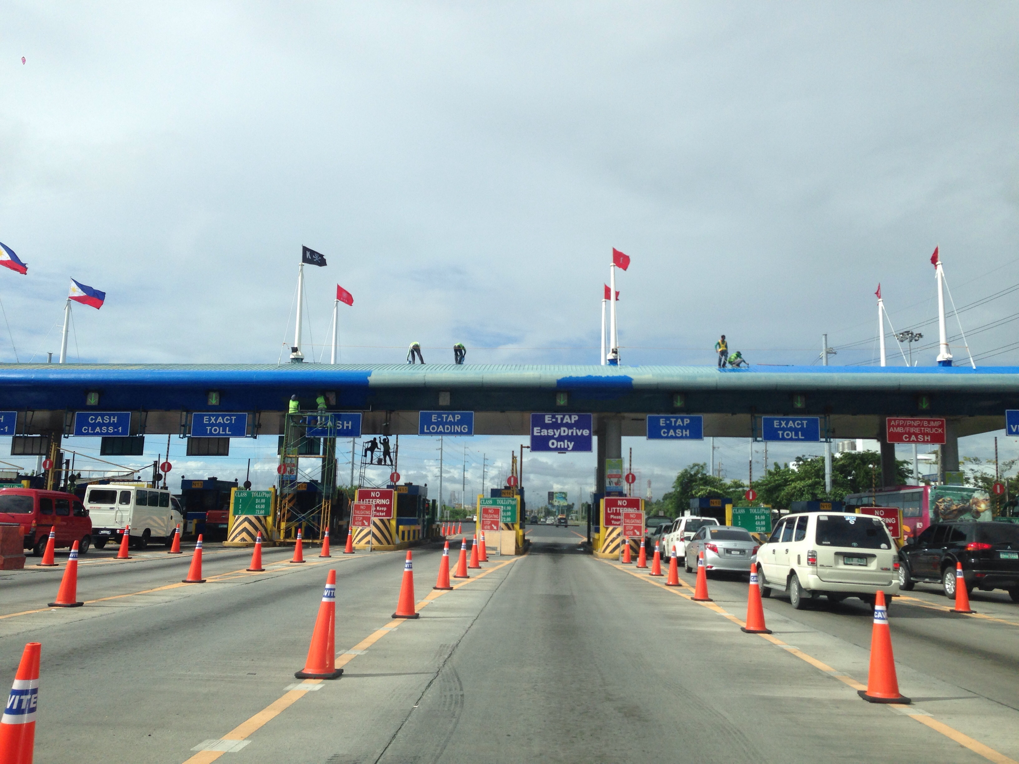 At the Toll Plaza of the Manila–Cavite Expressway (Coastal Road) in Las Piñas, Metro Manila, Philippines